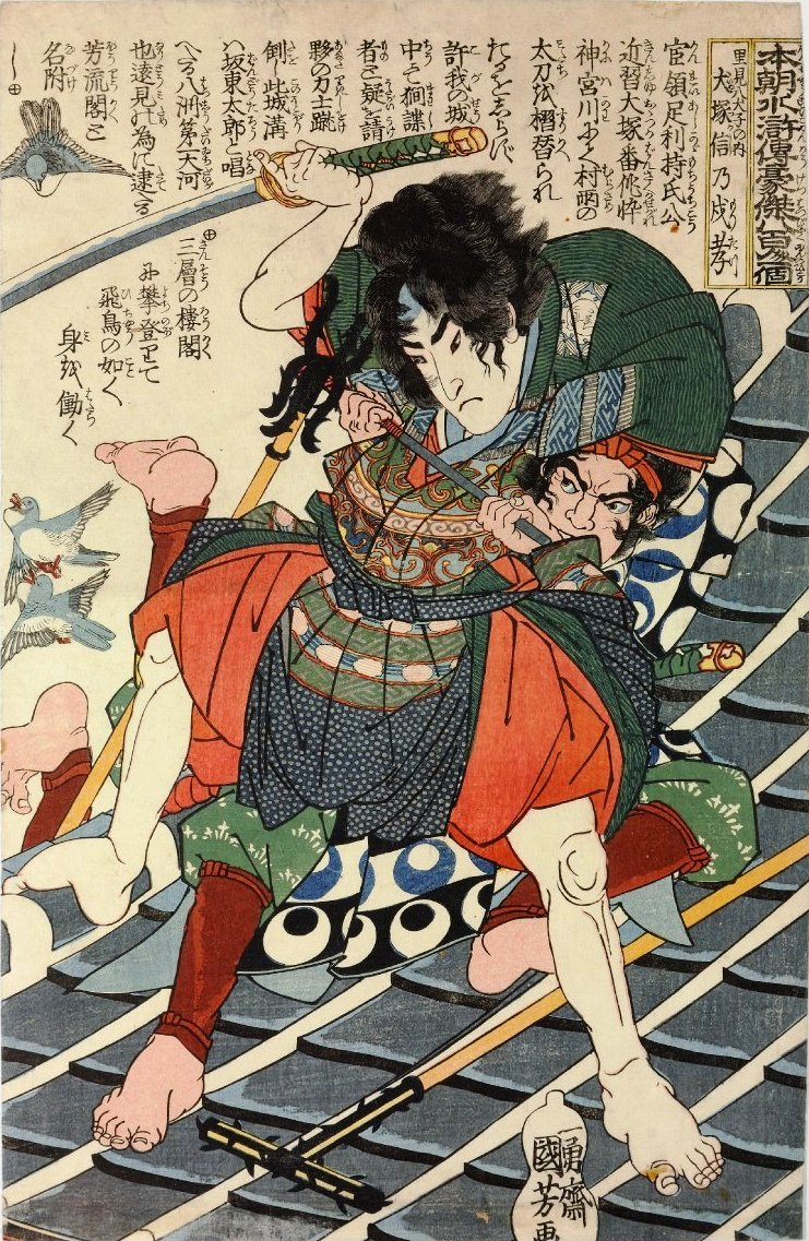 The Children of the Eight Dogs of Satomi: Inuzuka Shino Moritaka, One of the Eight Hundred Heroes of the Water Margin of Japan.